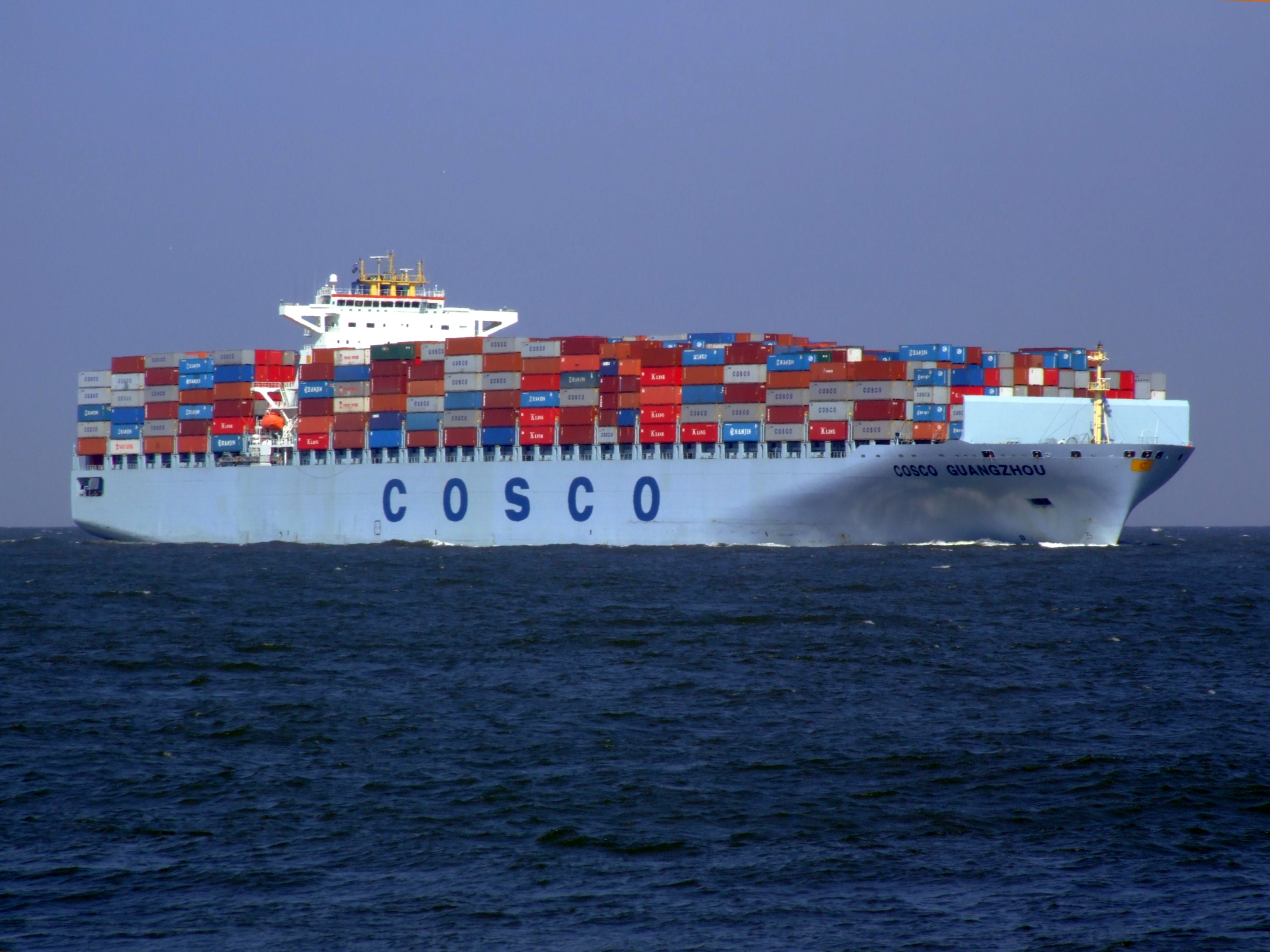 Cosco Guangzhou IMO 9305570 approaching Port of Rotterdam, Holland 19-Apr-2007.